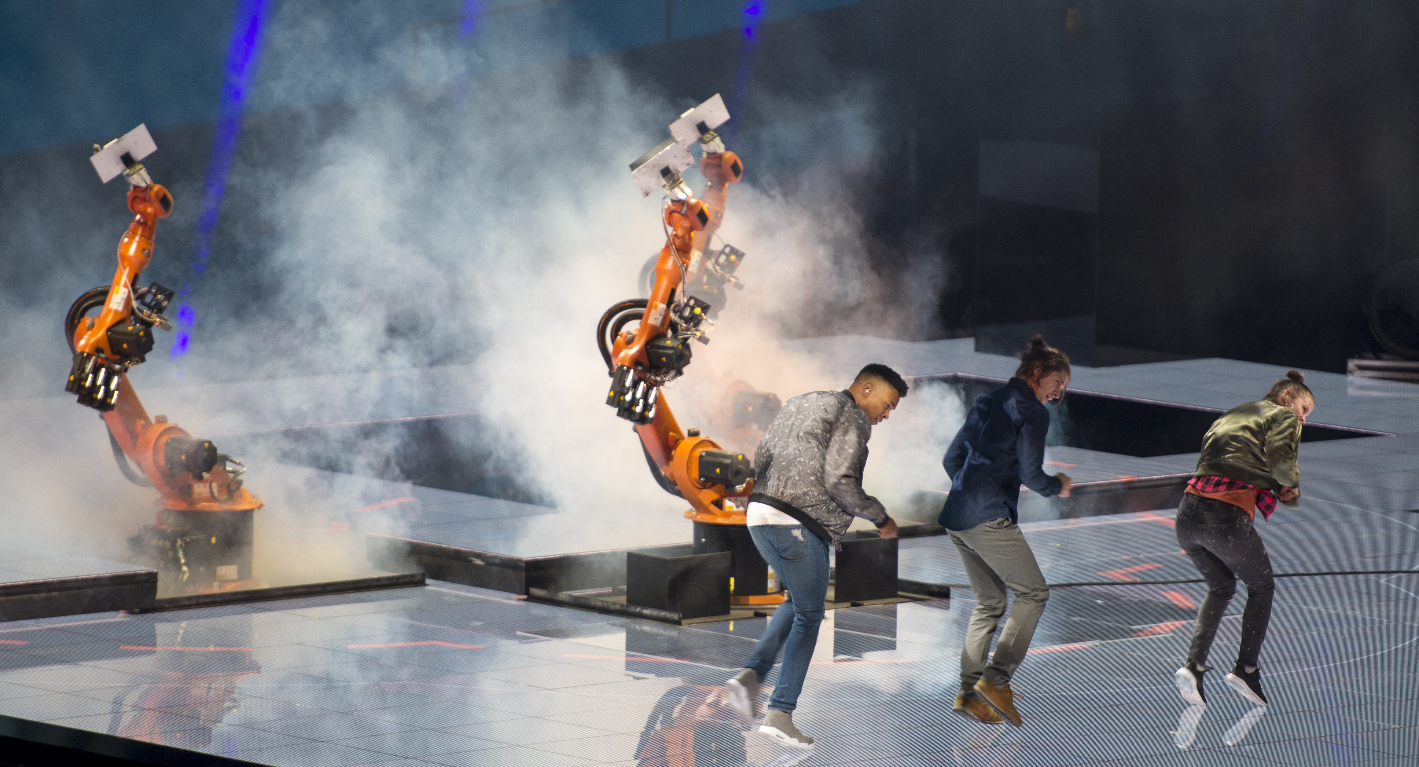 The interval act of the second semi final, during the first dress rehearsal in the Eurovision Song Contest 2016 in Stockholm. (Help translate this text) "Man vs. Machine"